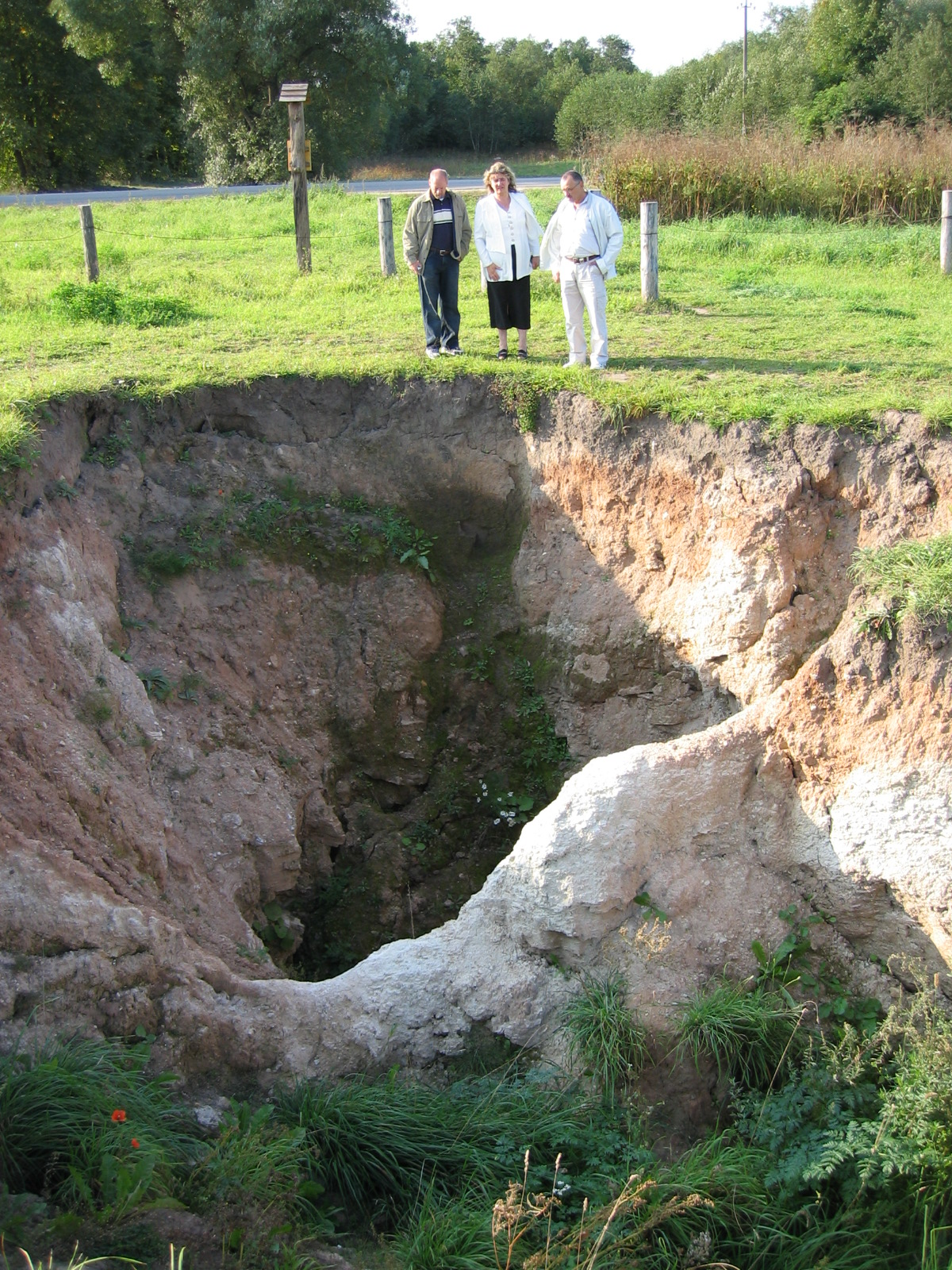 Sinkhole in Biržai, Lithuania, formed in December 2004.